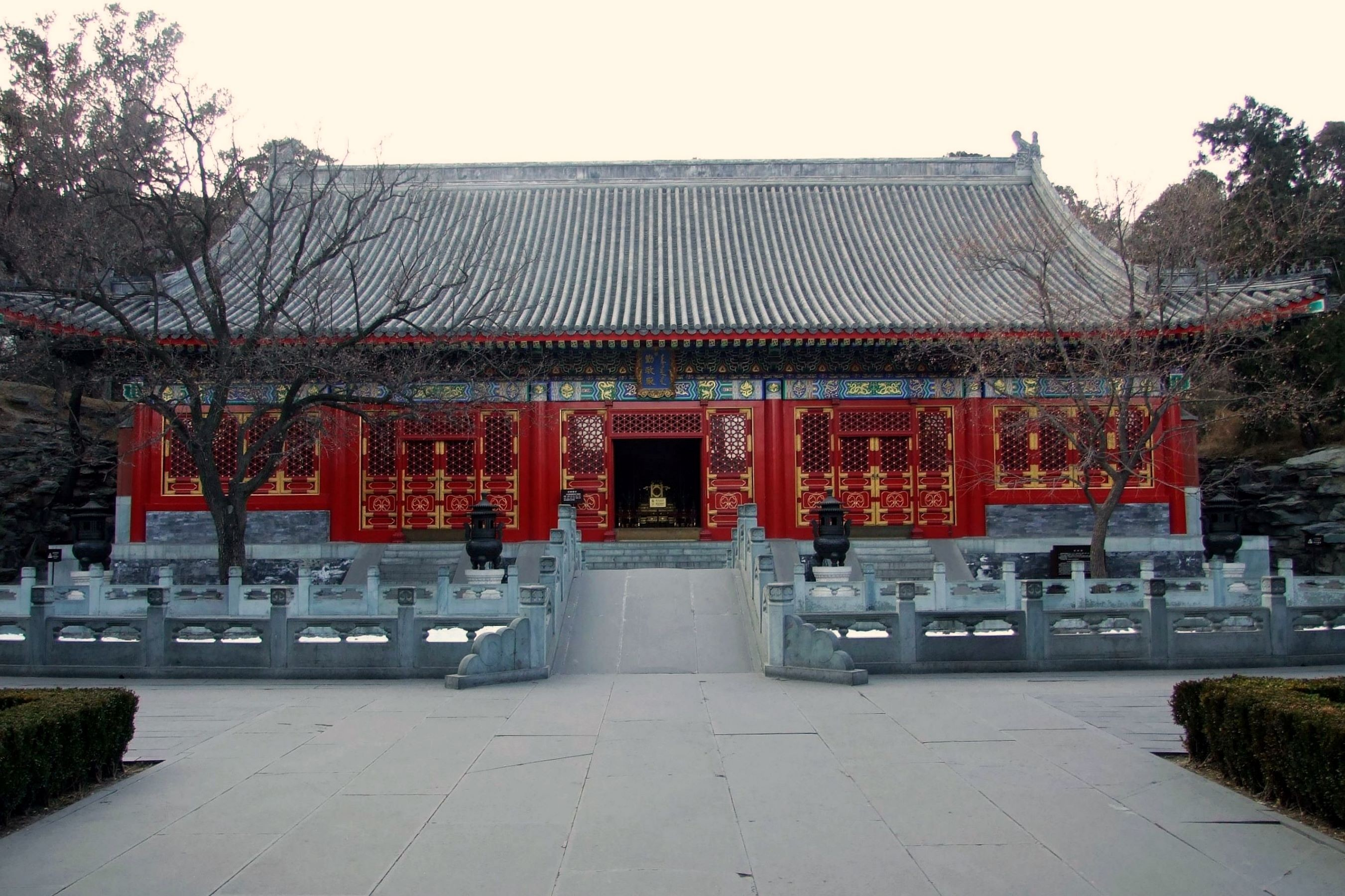 The palace of Fragrant Hills, Beijing. 中文（中国大陆）: 香山勤政殿